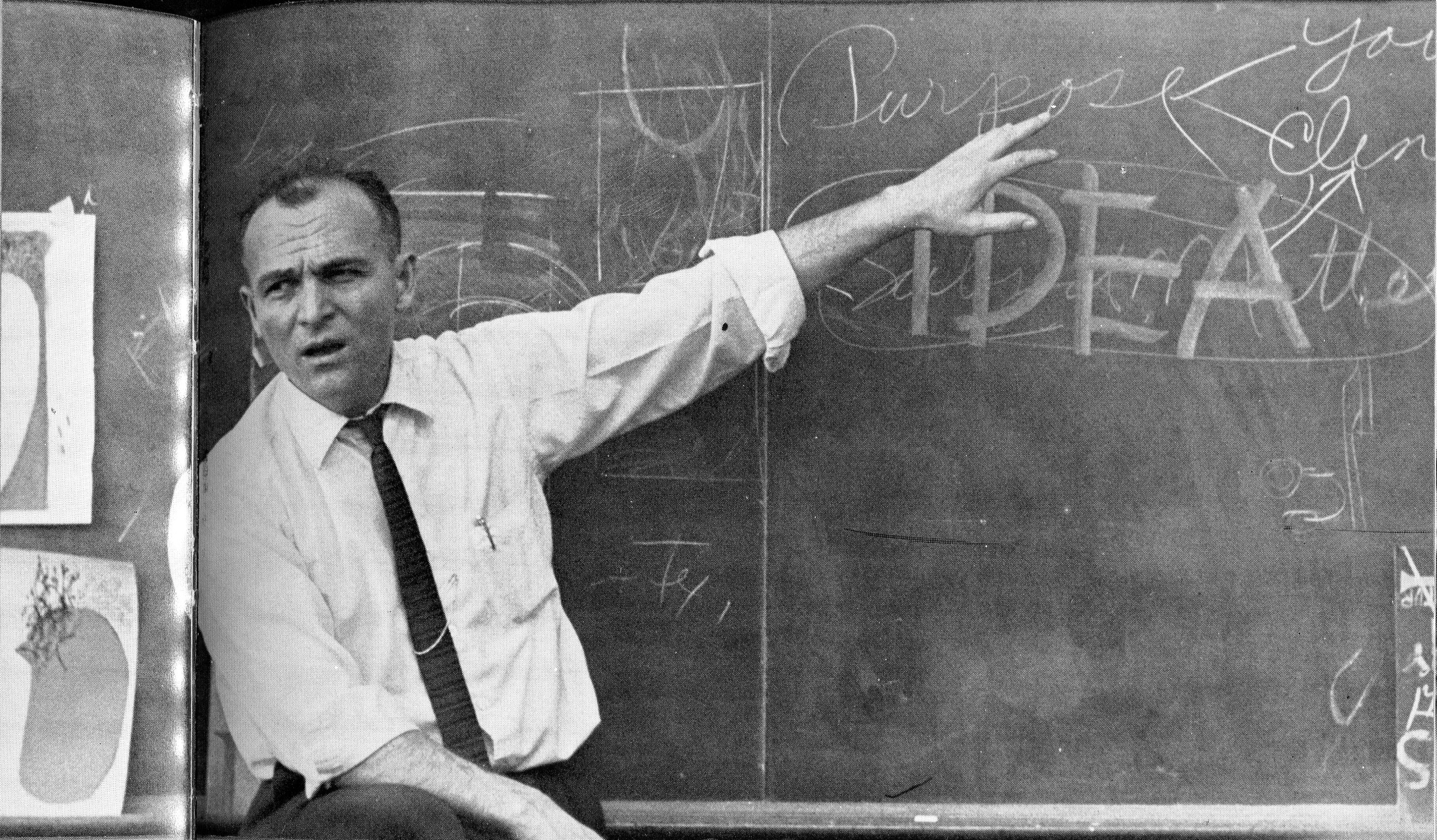 President Joseph Canzani, 1948-1995